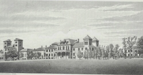 State Reform School 1876-1884